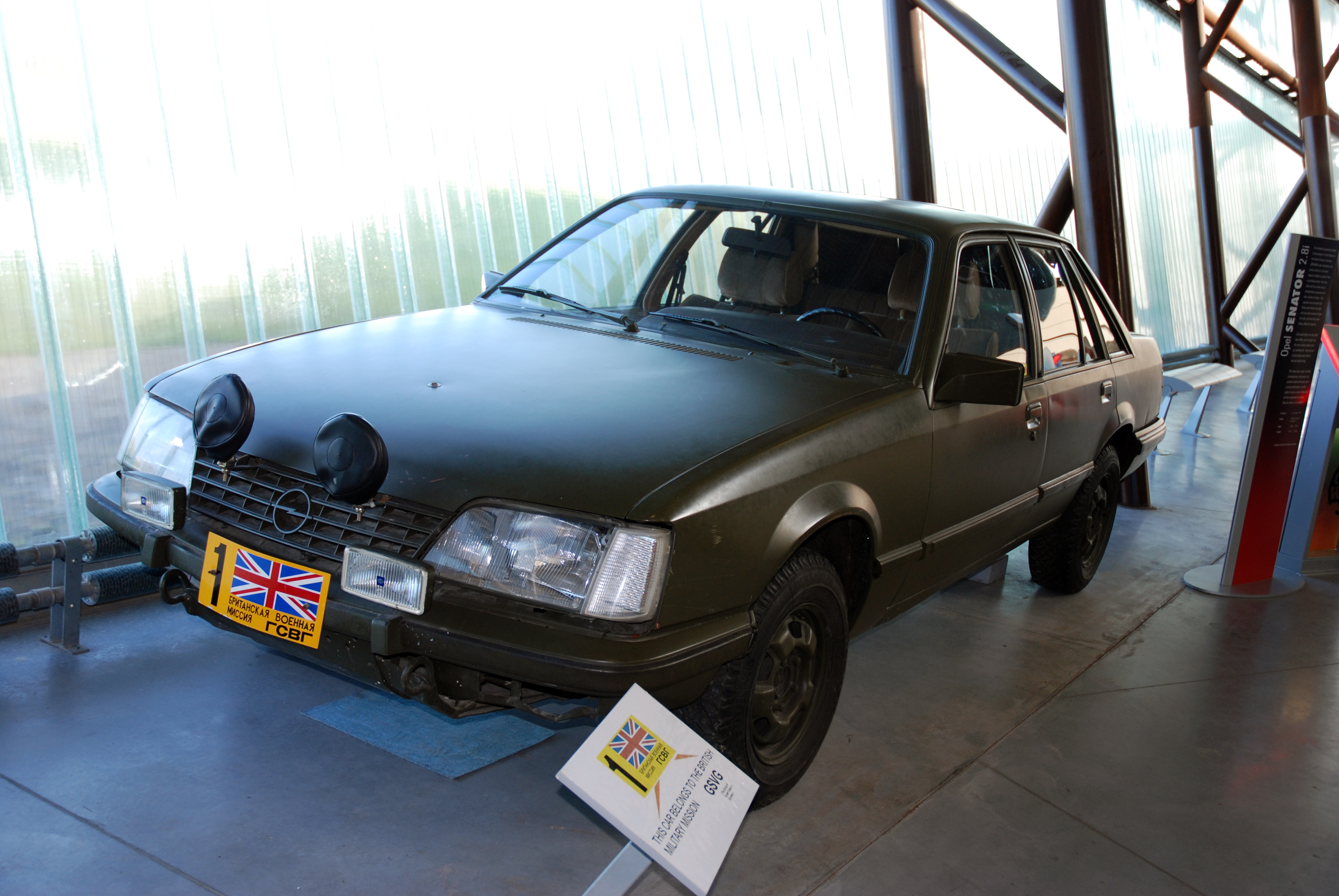 Opel Senator with Ferguson Formula all-wheel drive,[1] used by the British Commanders’-in-Chief Mission to the Soviet Forces in Germany (BRIXMIS); shown at RAF museum Cosford (October 2007).